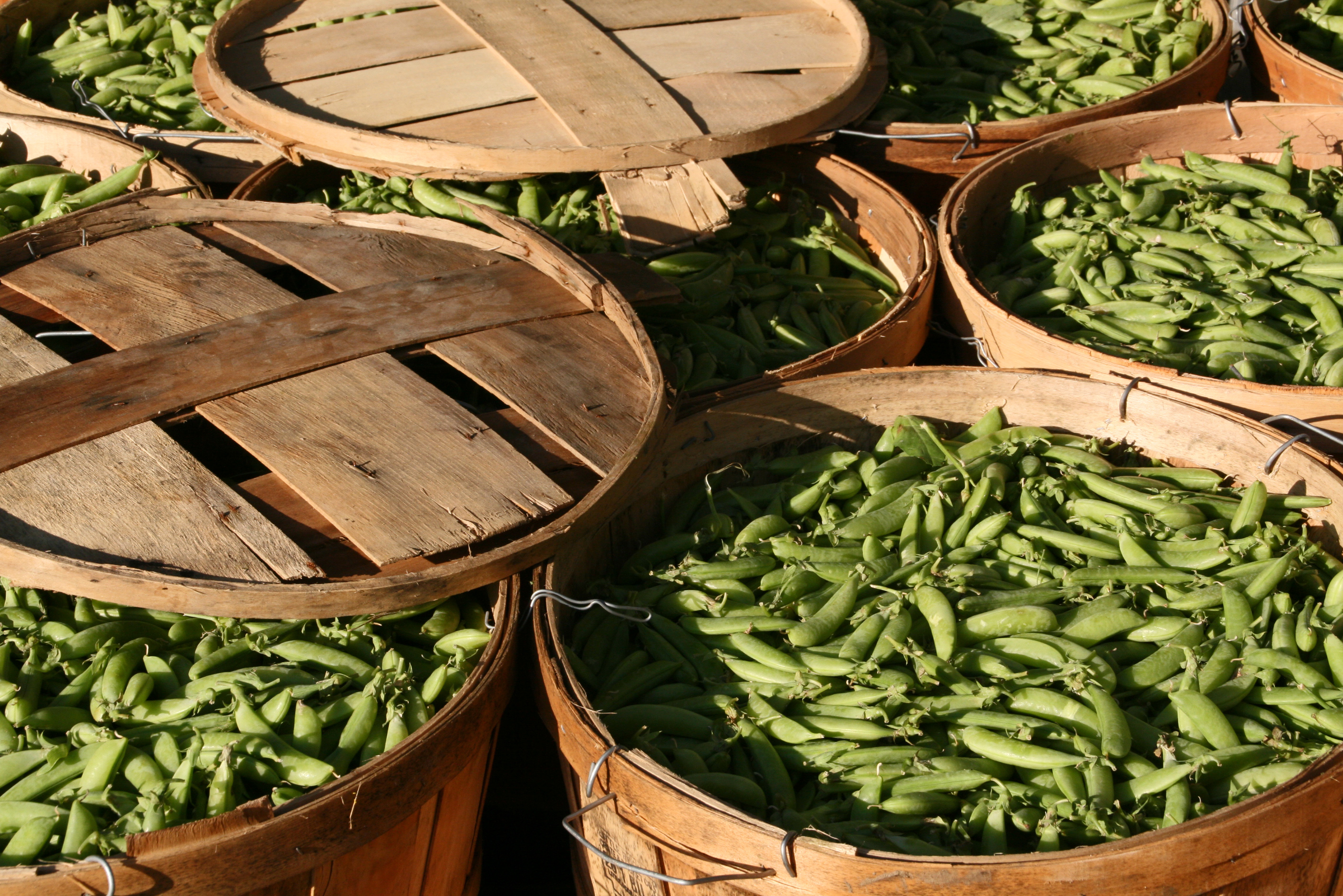 Union Square Greenmarket, Spring Peas